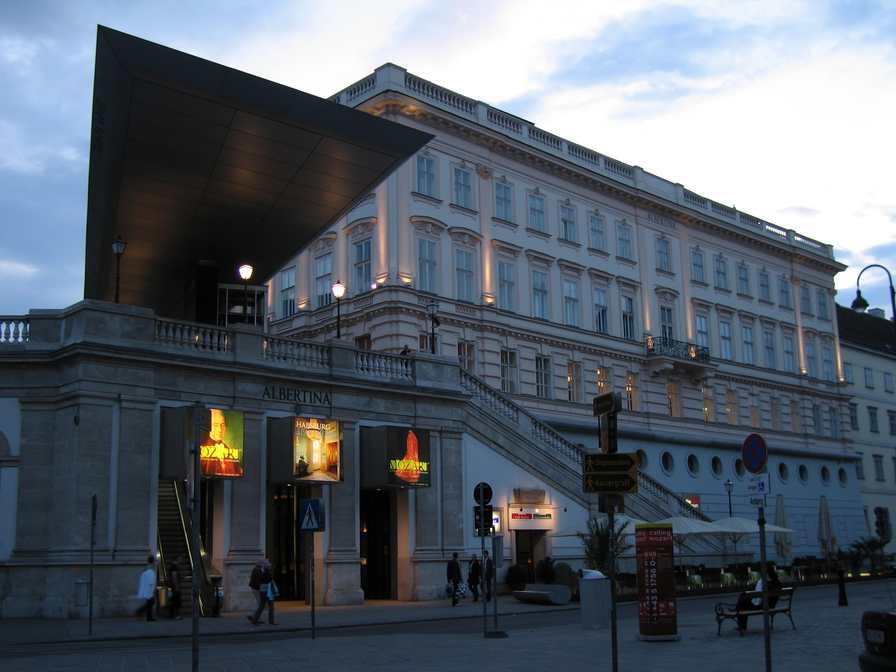 The Albertina is a museum in the Innere Stadt (First District) of Vienna, Austria. It houses one of the largest and most important print room collections in the world with approximately 65,000 drawings and approximately 1 million old master prints, as well as more modern graphics works.